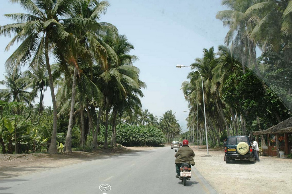 Road side in Salalah, Dhofar, Sultanate Oman